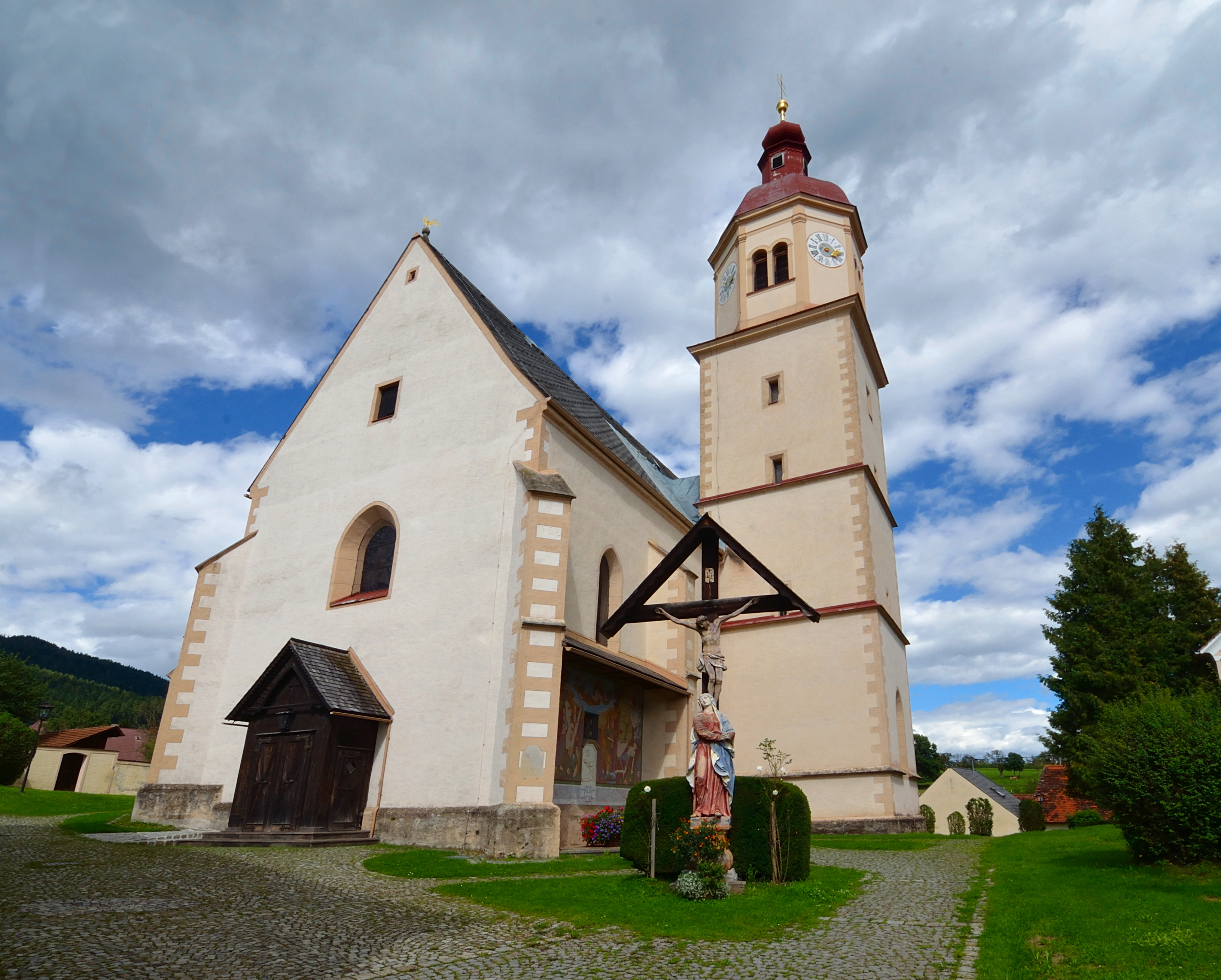 Parish church St. Nicholas, Fladnitz an der Teichalm.